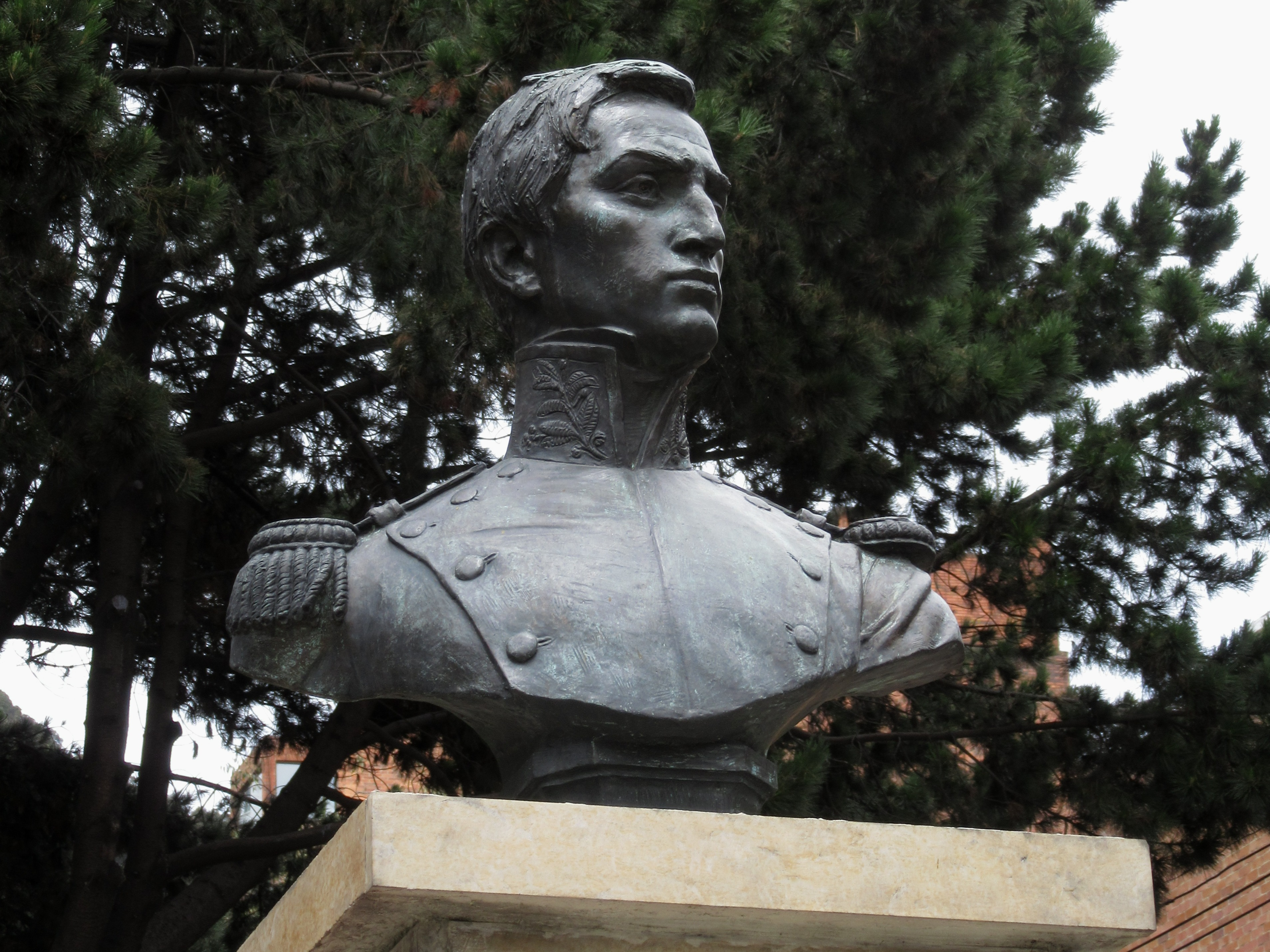 Bogotá